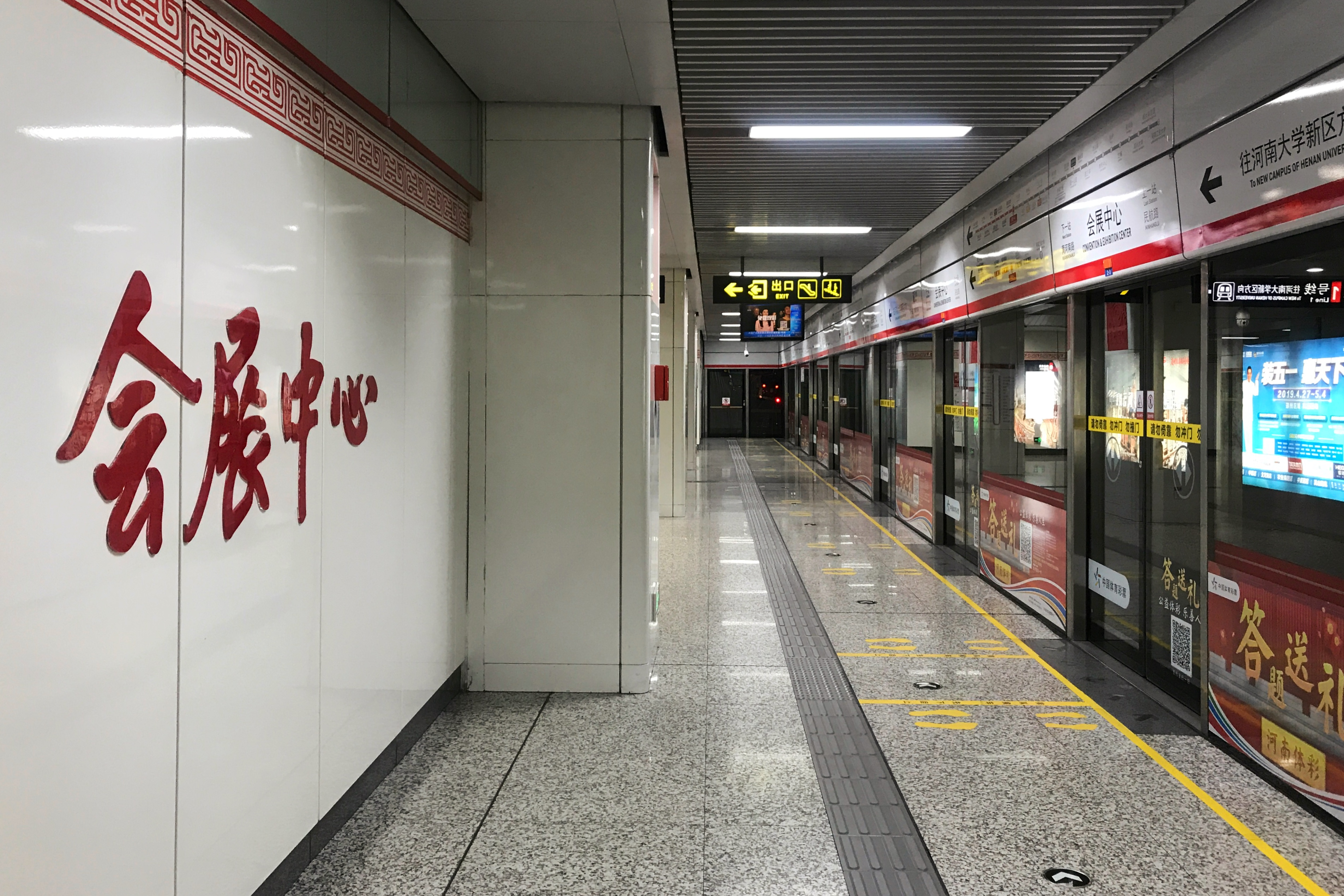 Platform at Convention & Exhibition Center Station (Zhengzhou Metro)